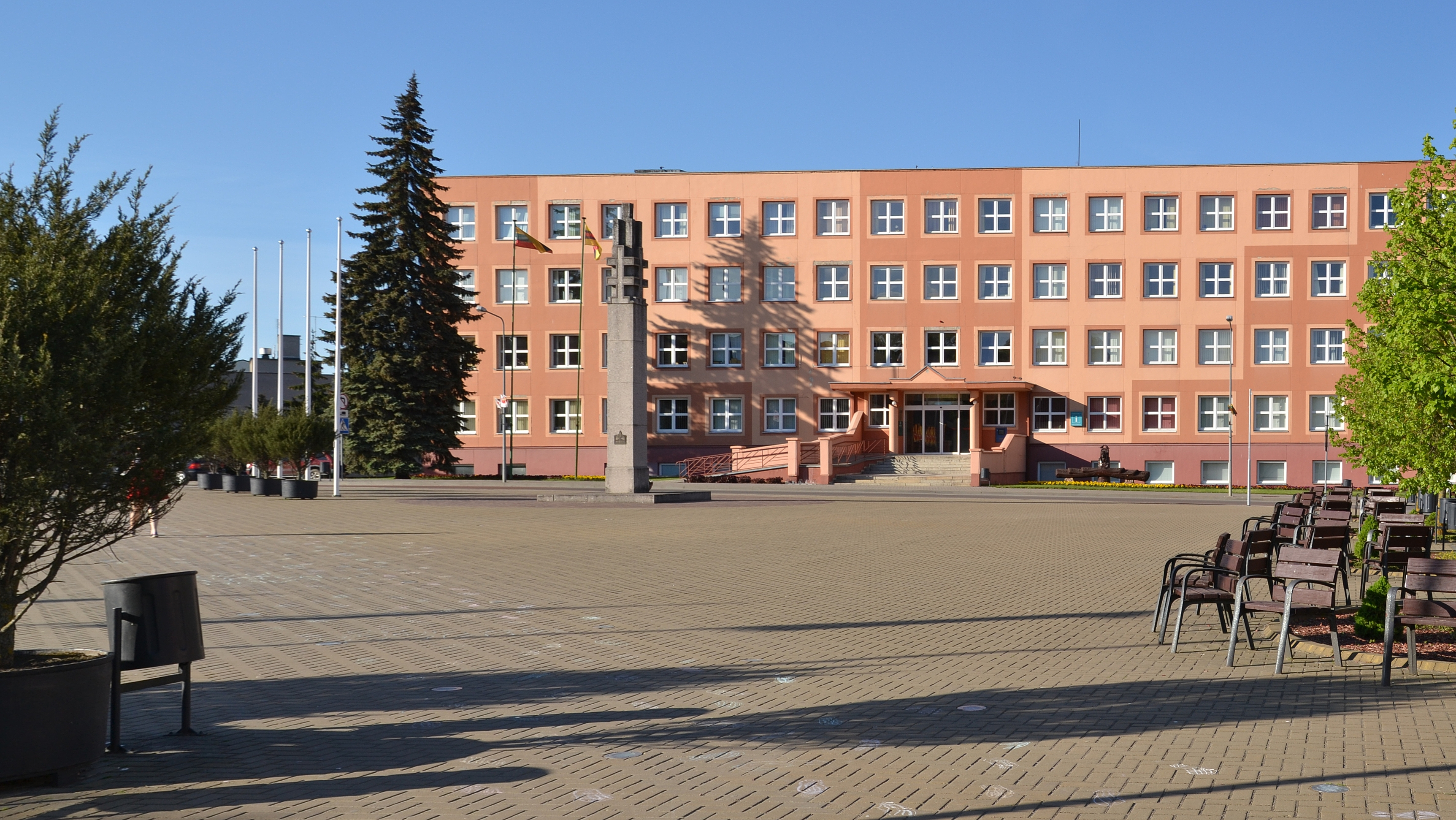 Lazdijai, Lithuania. Main square